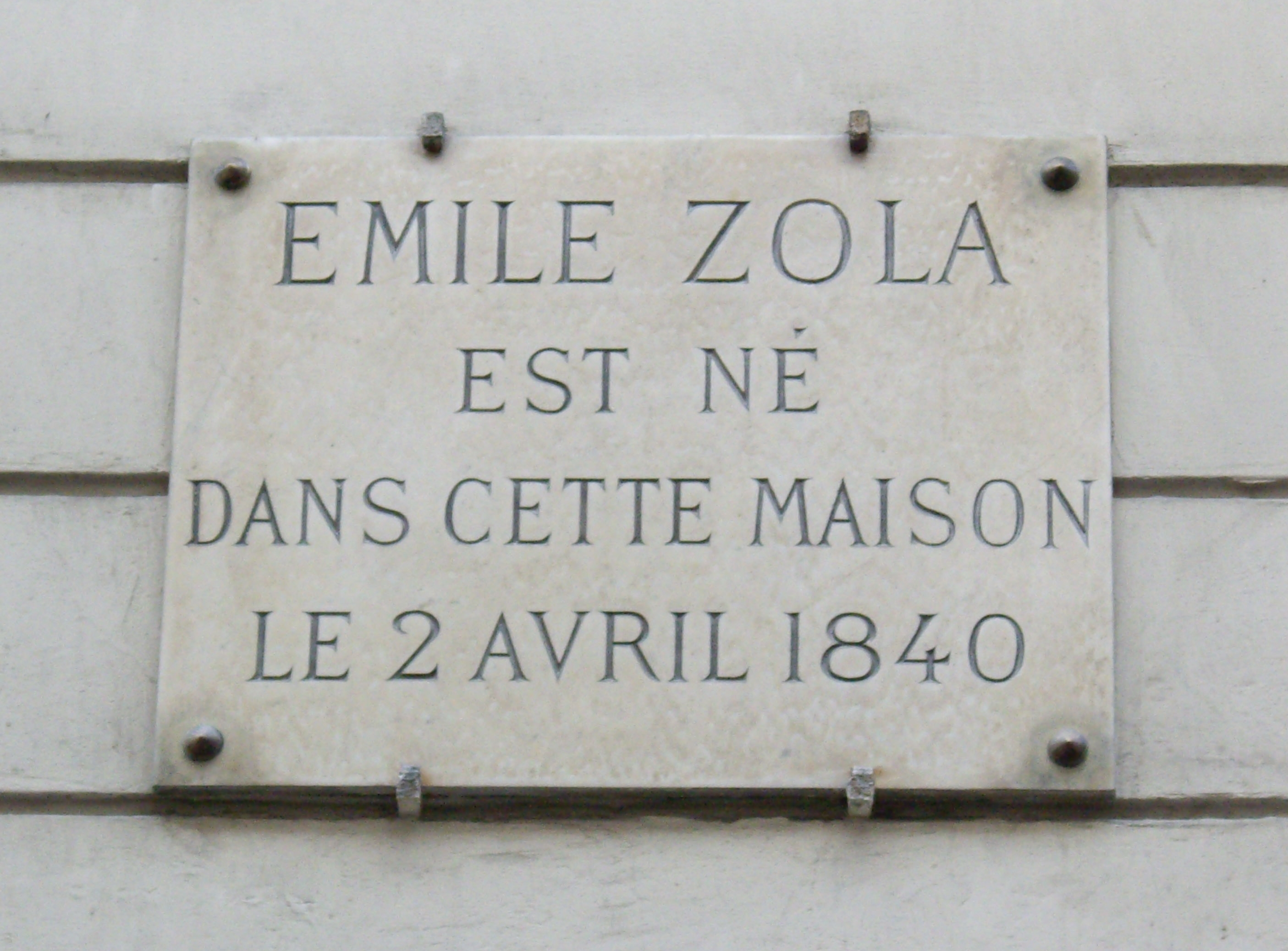 Plaque commemorating the birthplace of Émile Zola (1840-1902) at No. 10 Rue Saint-Joseph, Paris 2e.